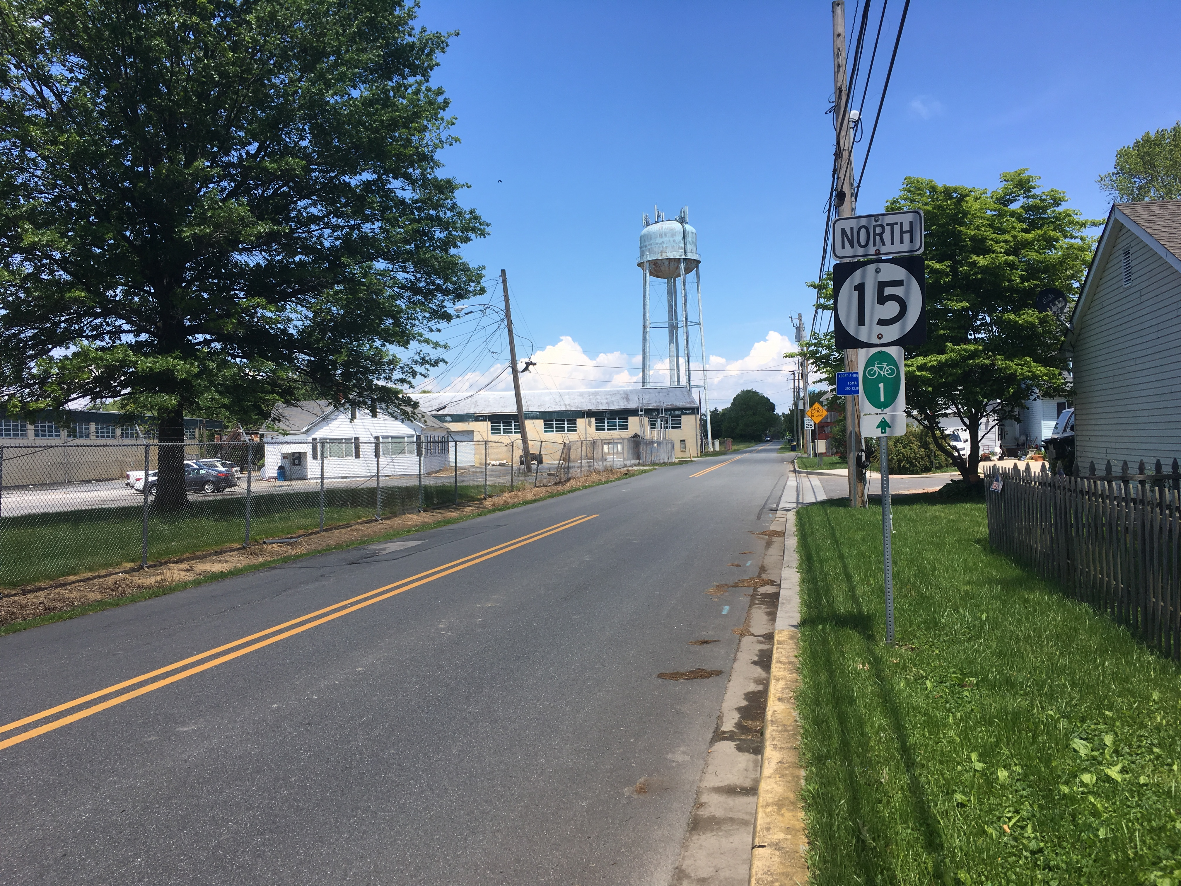 Northbound Delaware Route 15 (Duck Creek Road) past the intersection with Delaware Route 6 (Millington Road) in Clayton, Delaware